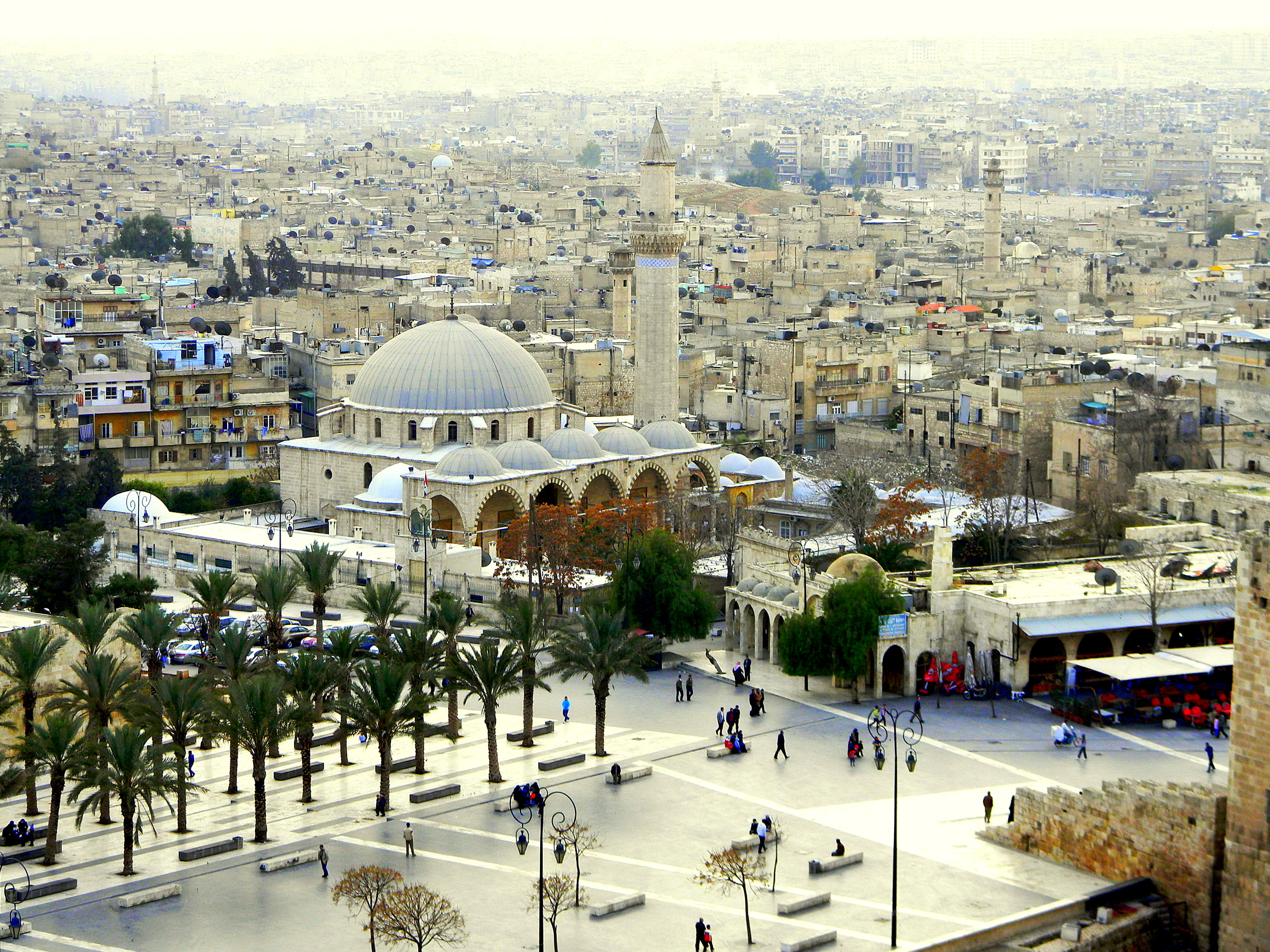 Al-Khusruwiyah mosque